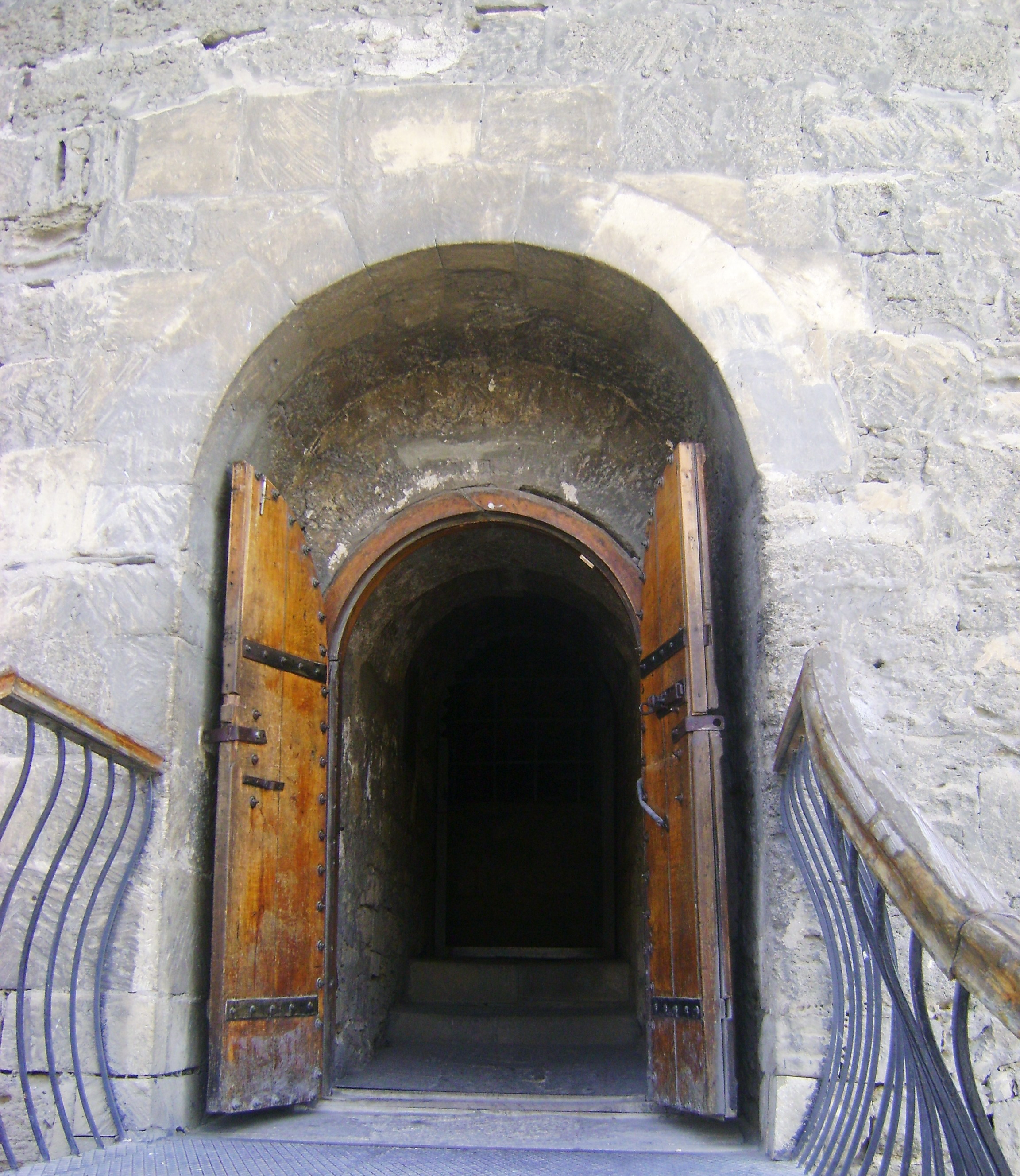 maiden_towers_entry_old_city_baku_azerbaijan - 12th century